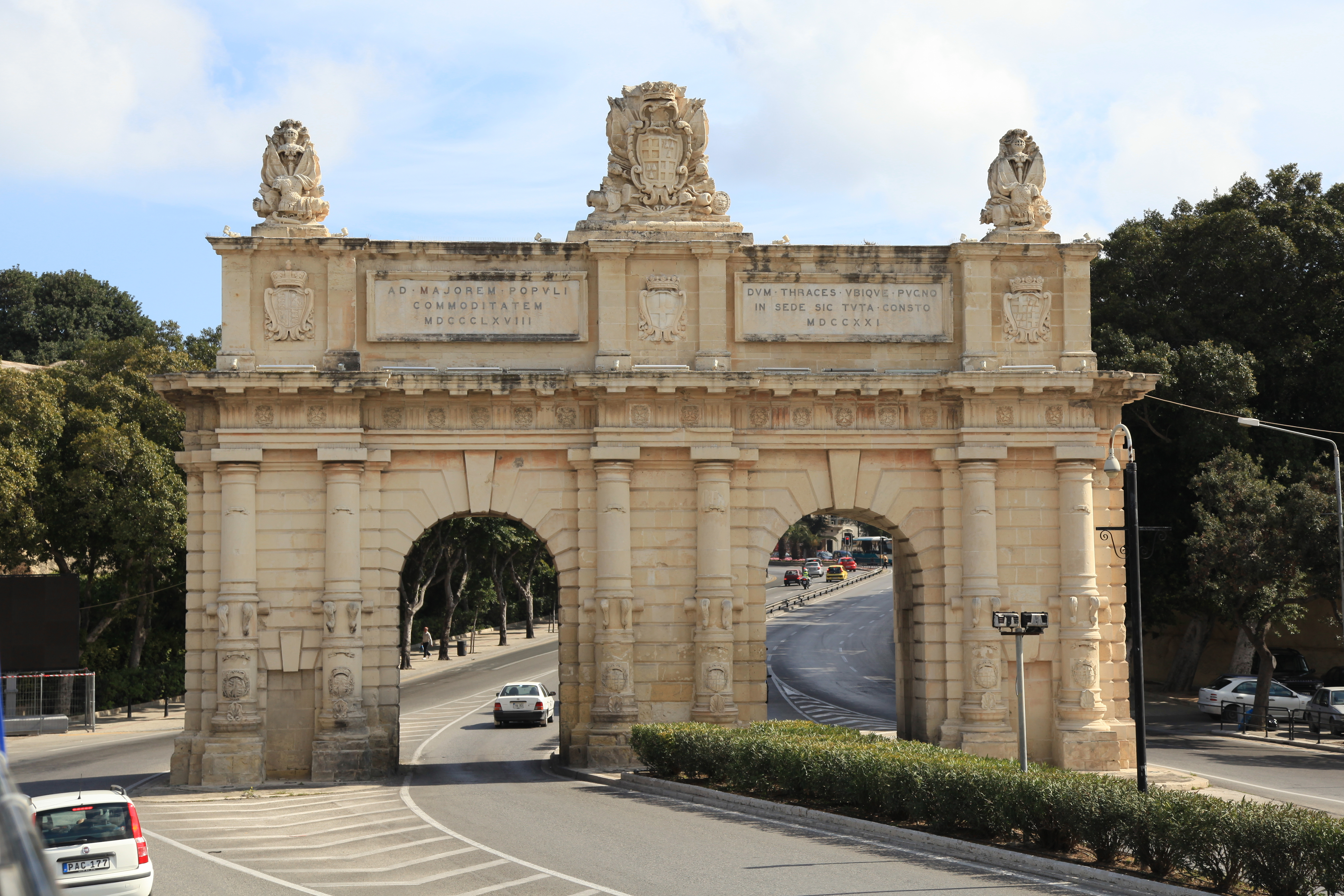 View from a Malta sightseeing north tour bus to the Porte des Bombes, Triq Nazzjonali in Floriana, Malta